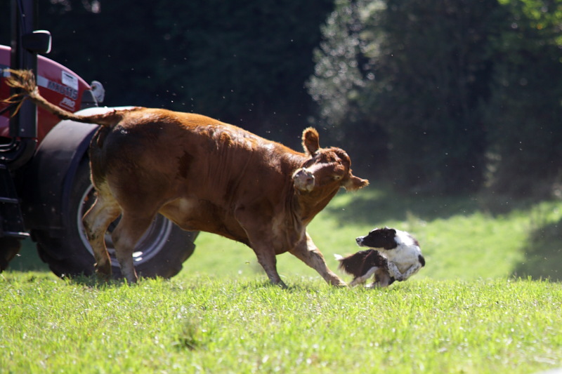 Moody cow vs herding dog.